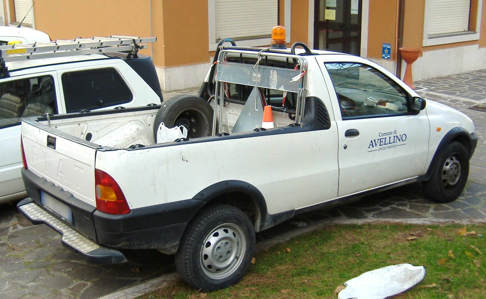 Fiat Strada MK1 pick-up